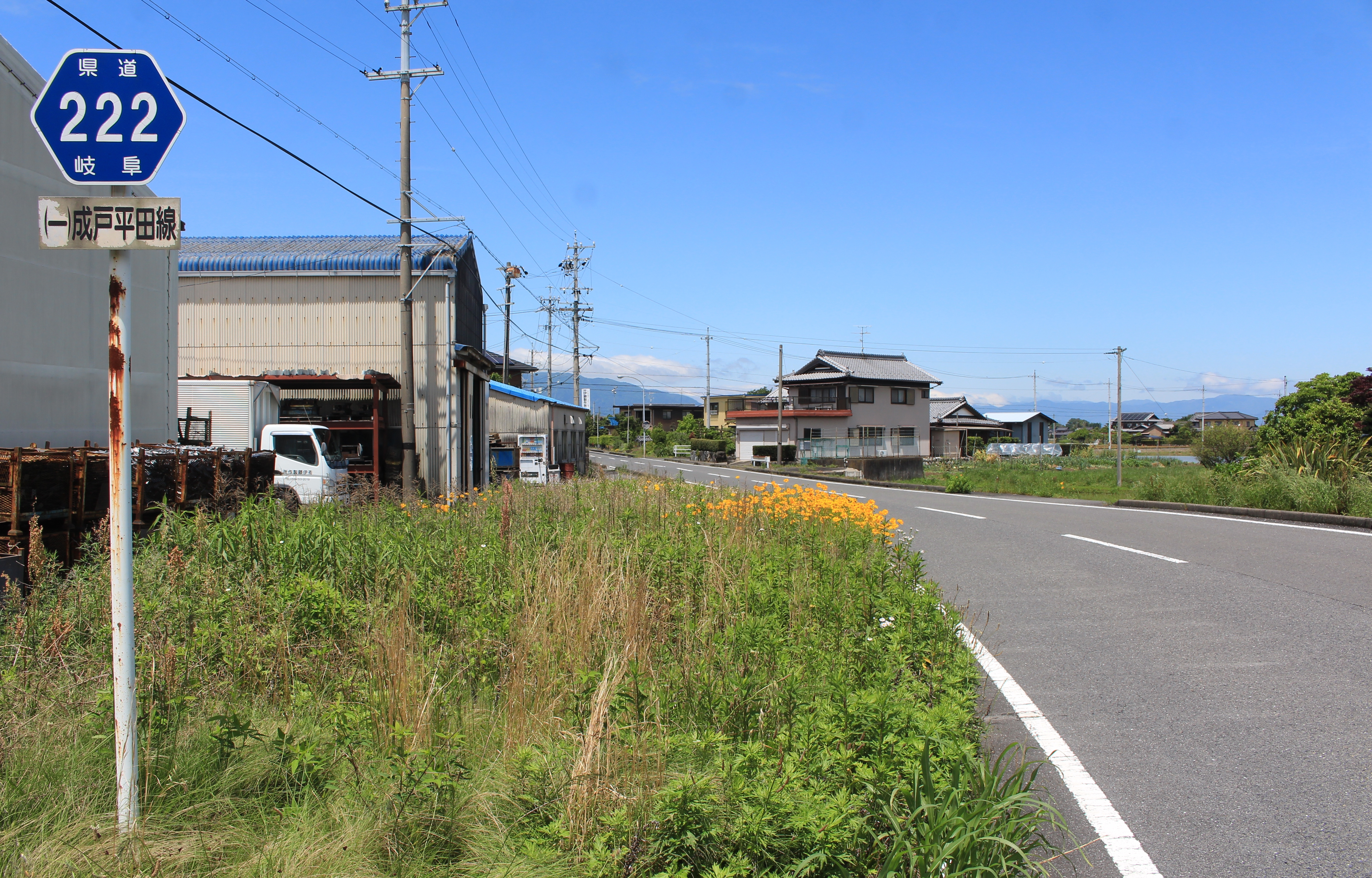 Gifu Prefectural Road Route 222 in Narito, Kaizu-cho, Kaizu city, Gifu prefecture, Japan.